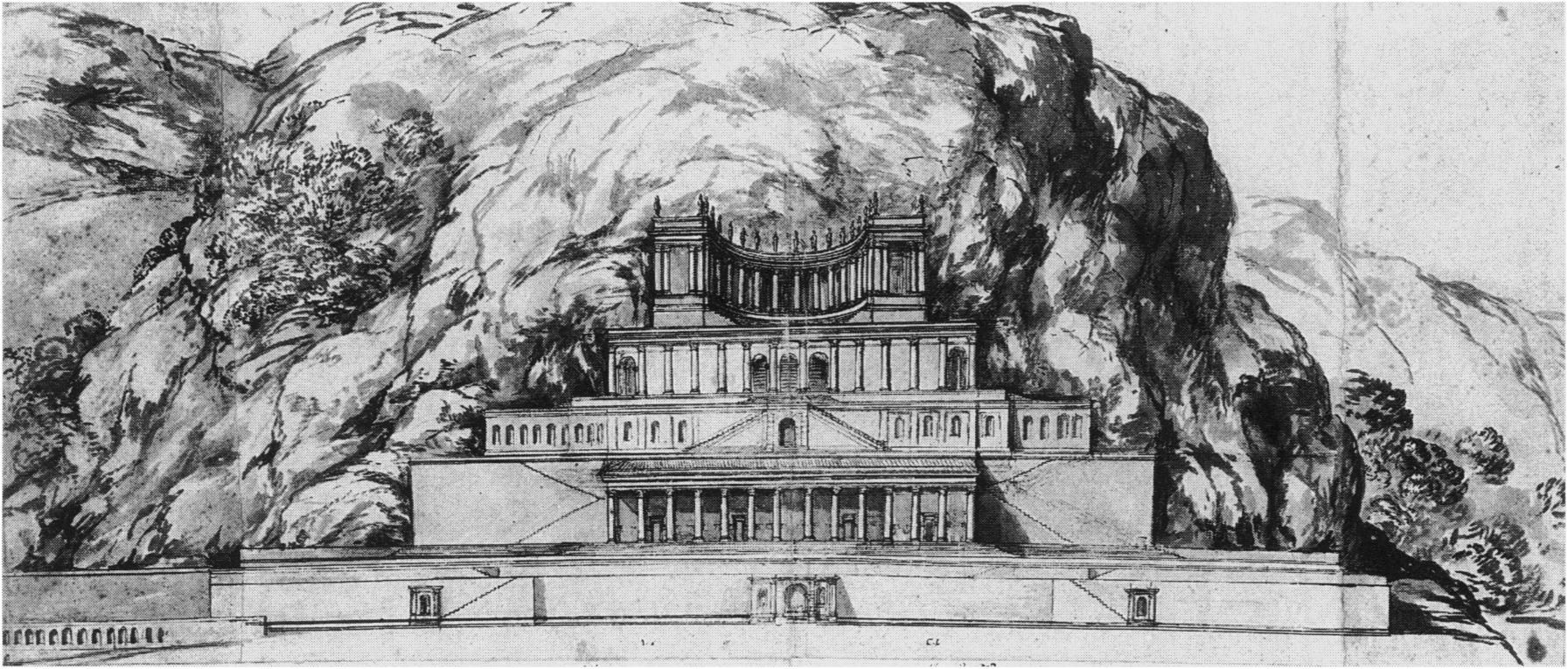 Reconstruction of the temple of Fortuna Primigenia at Palestrina by Pietro da Cortona.